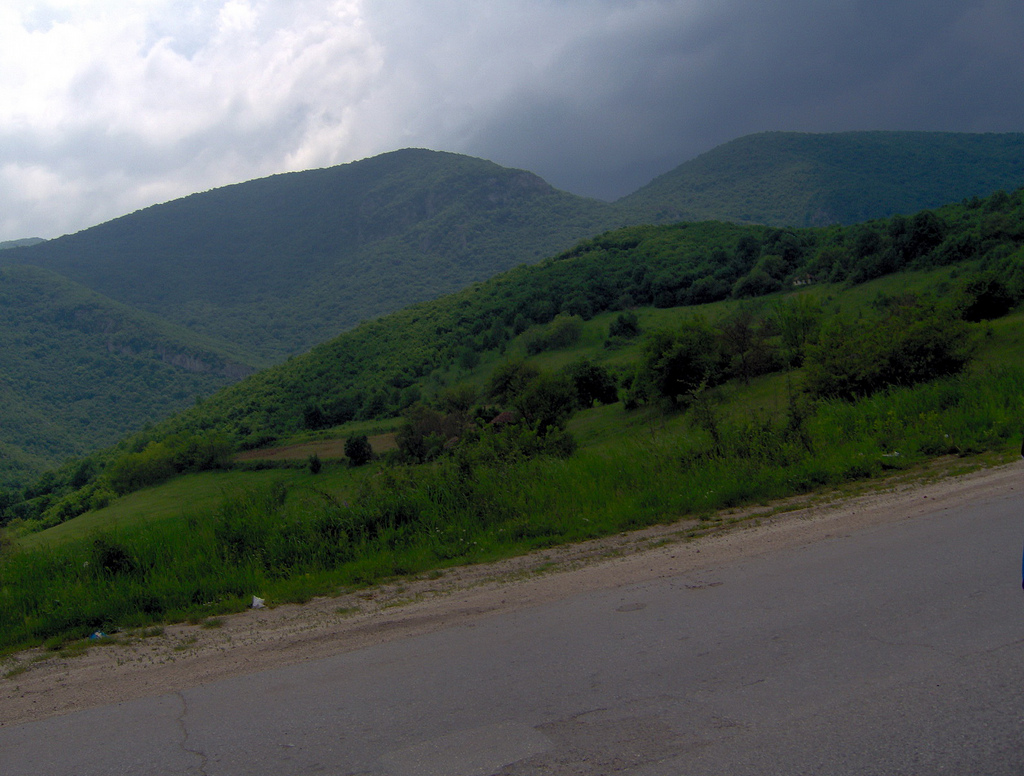 2 beFore the rain